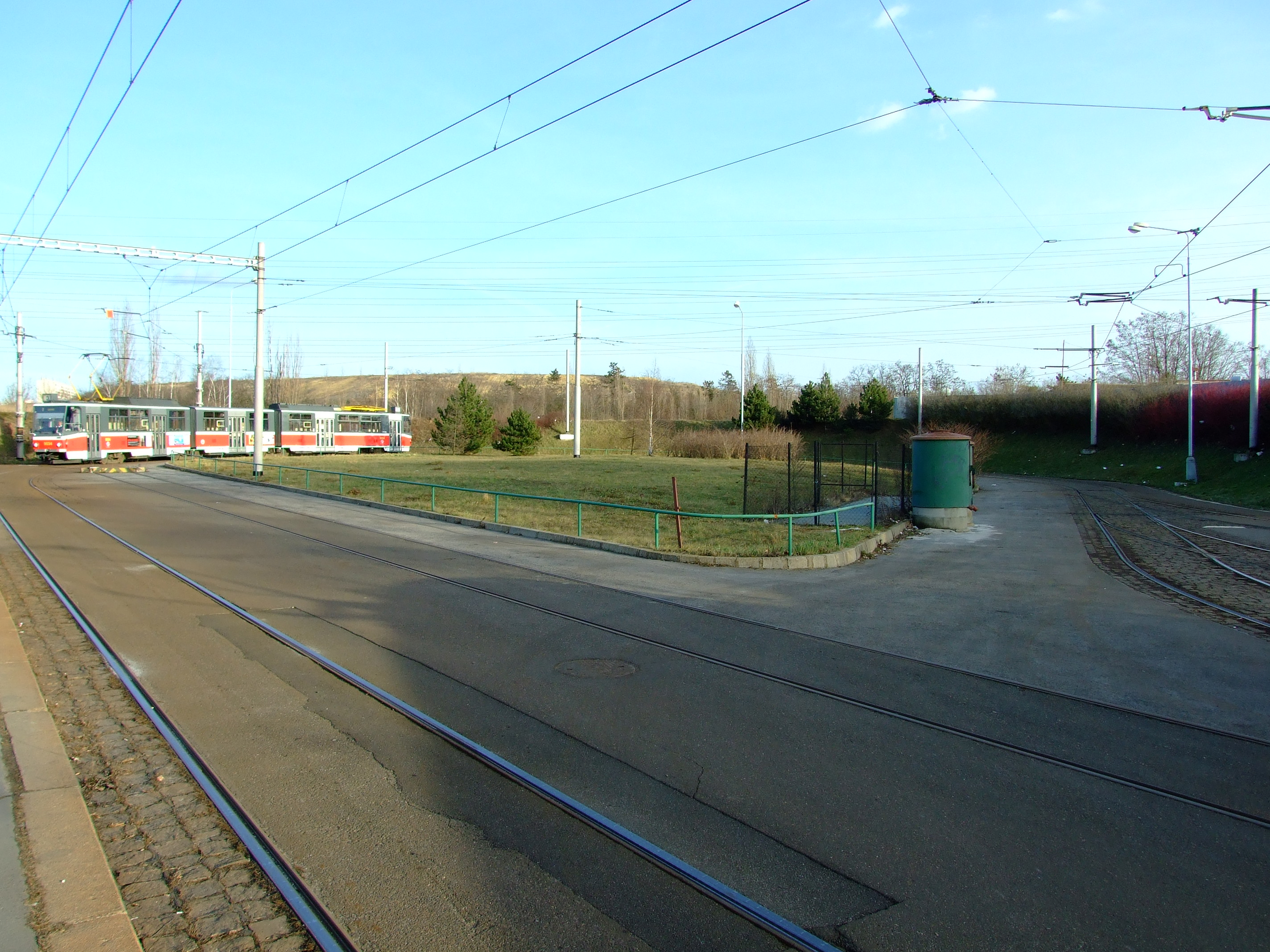 Tram terminus Levského in Prague-Modřany